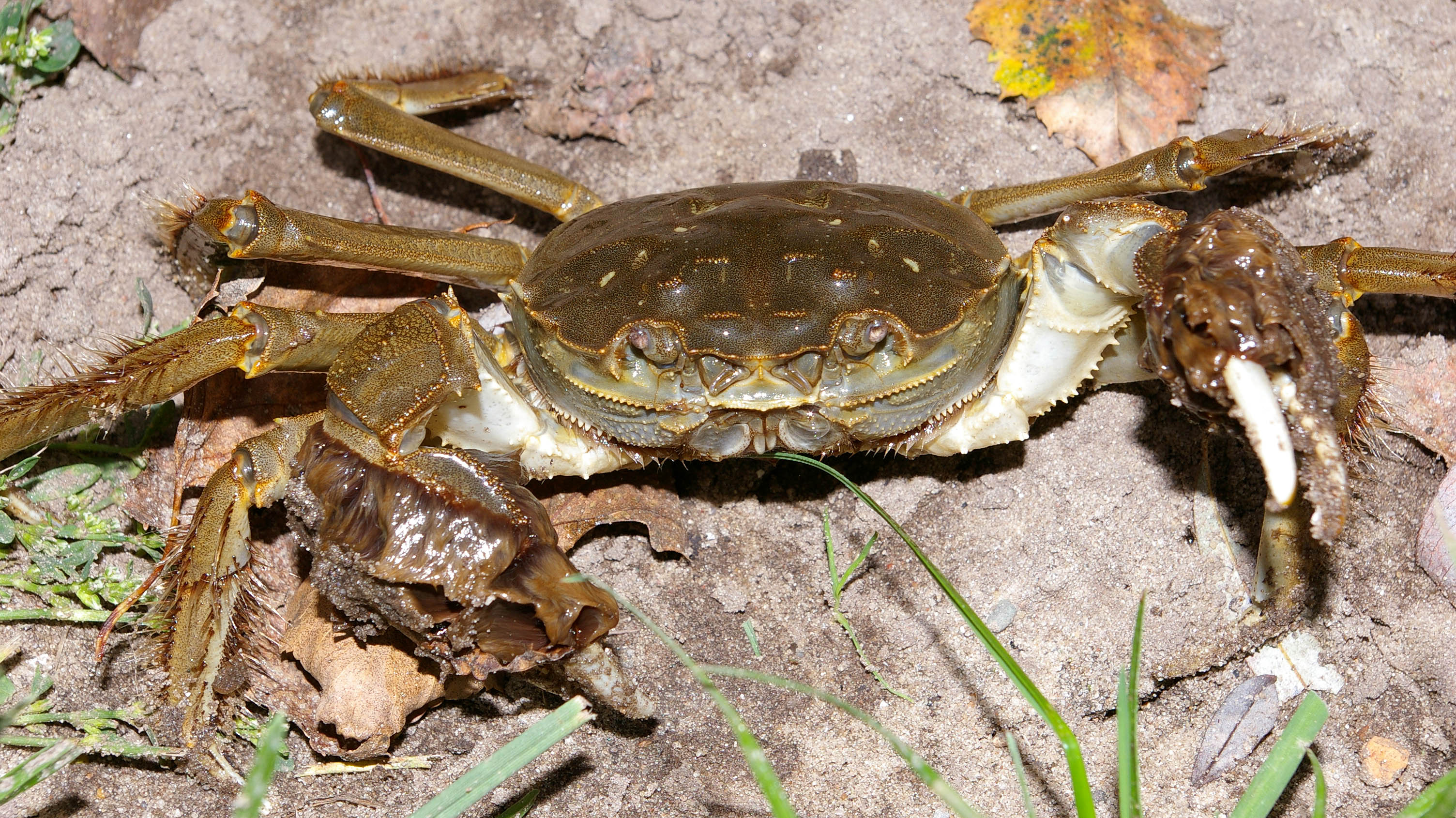 The Chinese mitten crab, Eriocheir sinensis. This male specimen had been caught with many others by a fisherman in the Havel river in the federal state of Brandenburg, Germany.